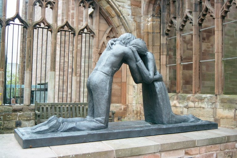 Reconciliation, a statue in the ruin of St Michael's Cathedral in Coventry, England. It is designed by Josefina de Vasconcellos and represents two former enemies forgiving each other.